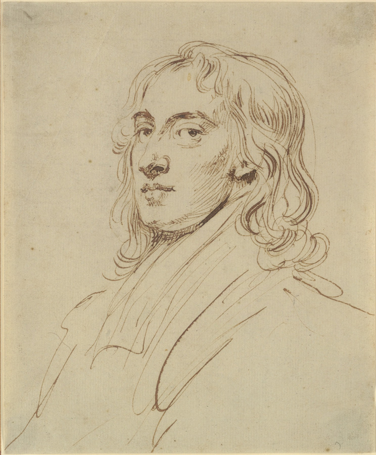 Self-portrait drawing by John Vanderbank